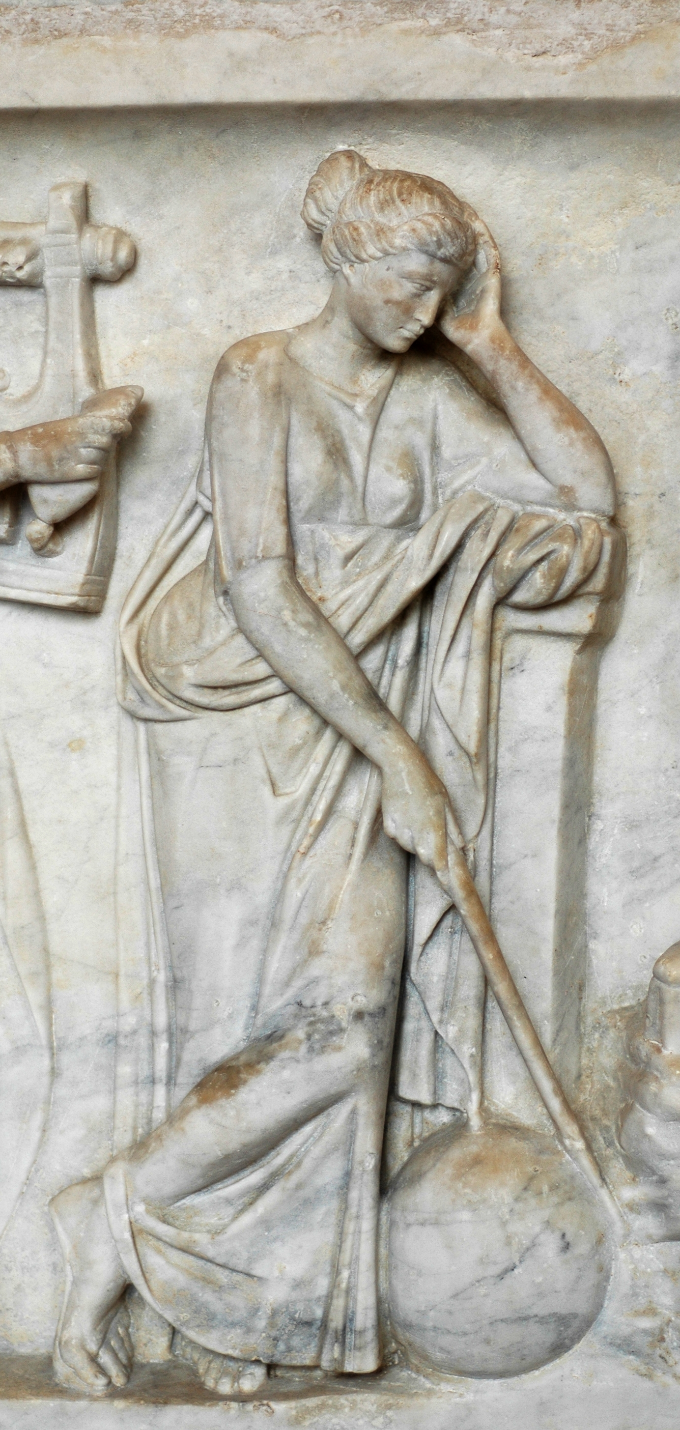 Urania, muse of astronomy, ponting to a globe with a stick. Detail from the “Muses Sarcophagus”, representing the nine Muses and their attributes. Marble, first half of the 2nd century AD, found by the Via Ostiense.